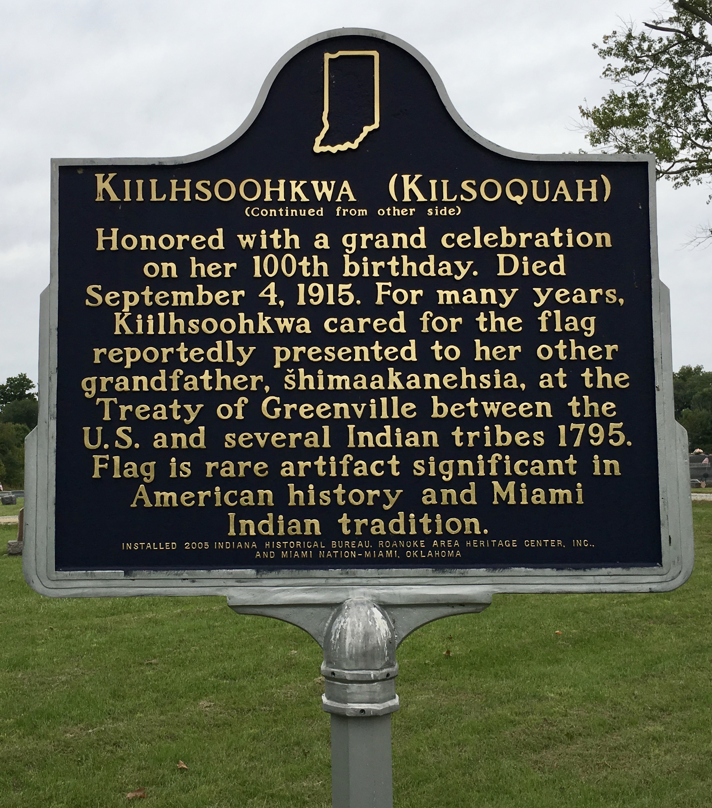 Historic sign at Glenwood Cemetery, Roanoke, Indiana memorializing and celebrating Kilsoquah's life.